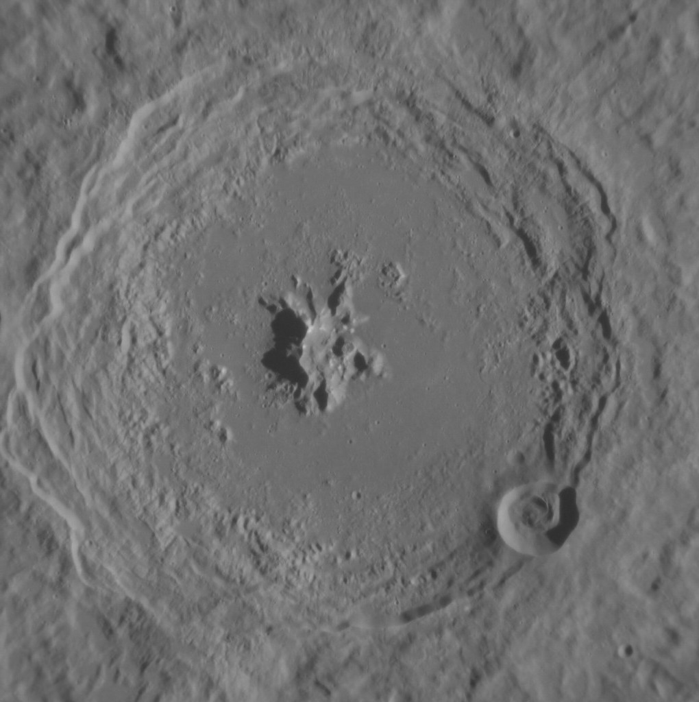 Bartók crater on Mercury. MESSENGER Narrow Angle Camera image. Approximate north is up. Emission Angle: 10.0 Incidence Angle: 67.3 Latitude: -29.2 Longitude: 225.1 Phase Angle: 77.1